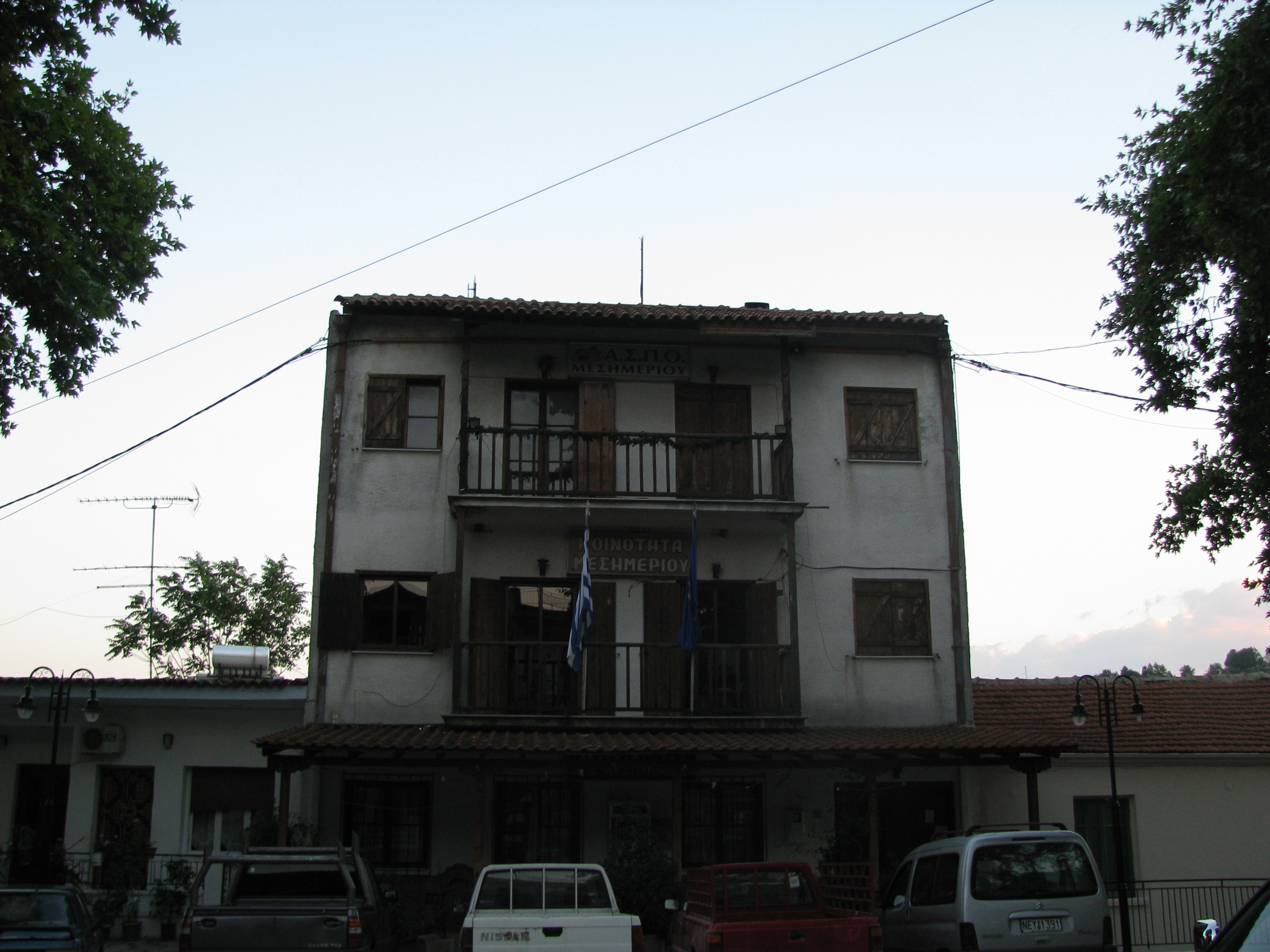 Village of Mesimer or Mesimeri, Pella prefecture, Greece